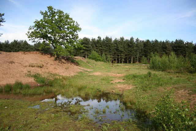 Spalford Warren. Spalford Warren near New Lane